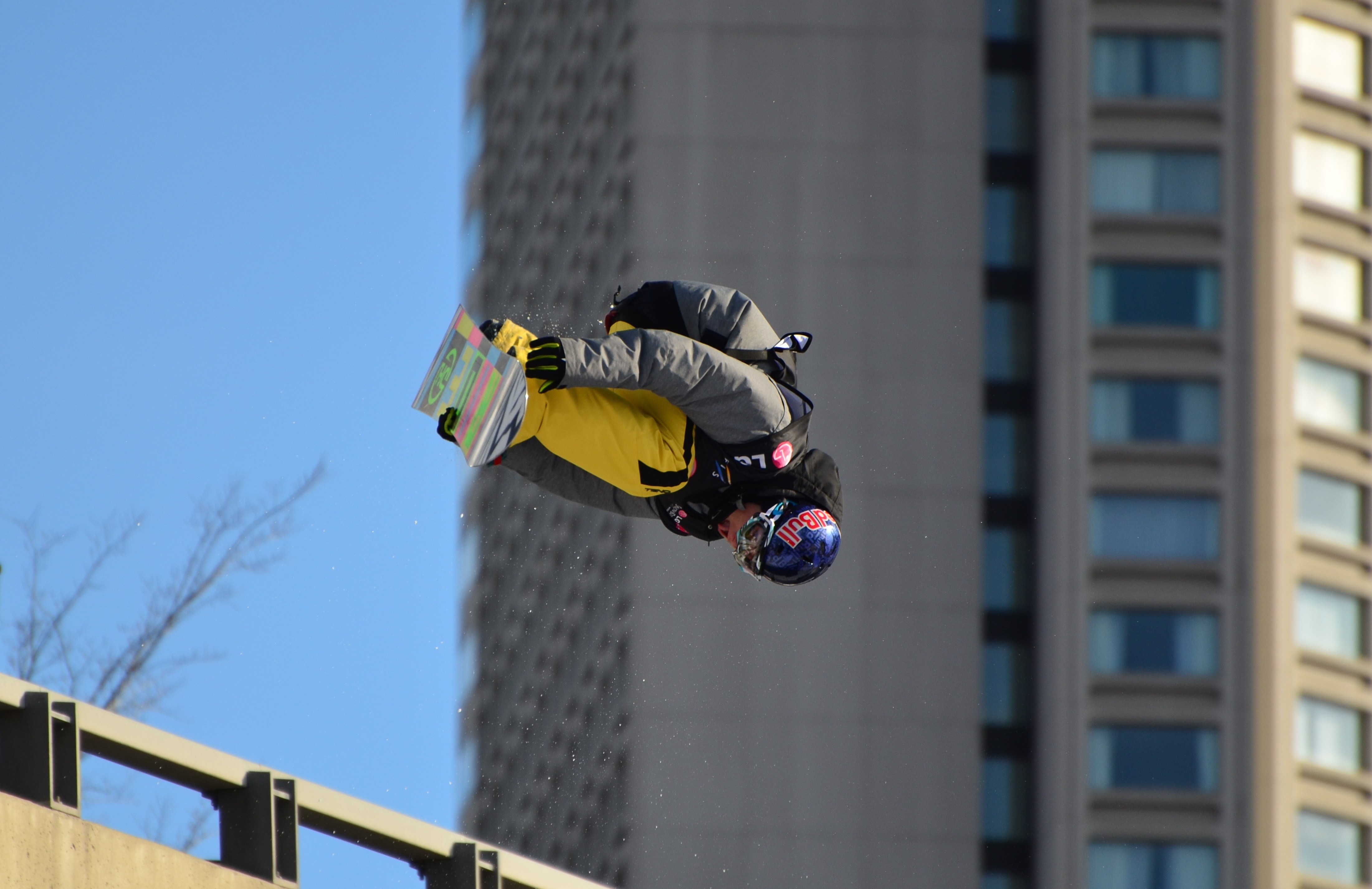 Sébastien Toutant, a snowboarder, at the downtown Québec big air competition. He won the event.